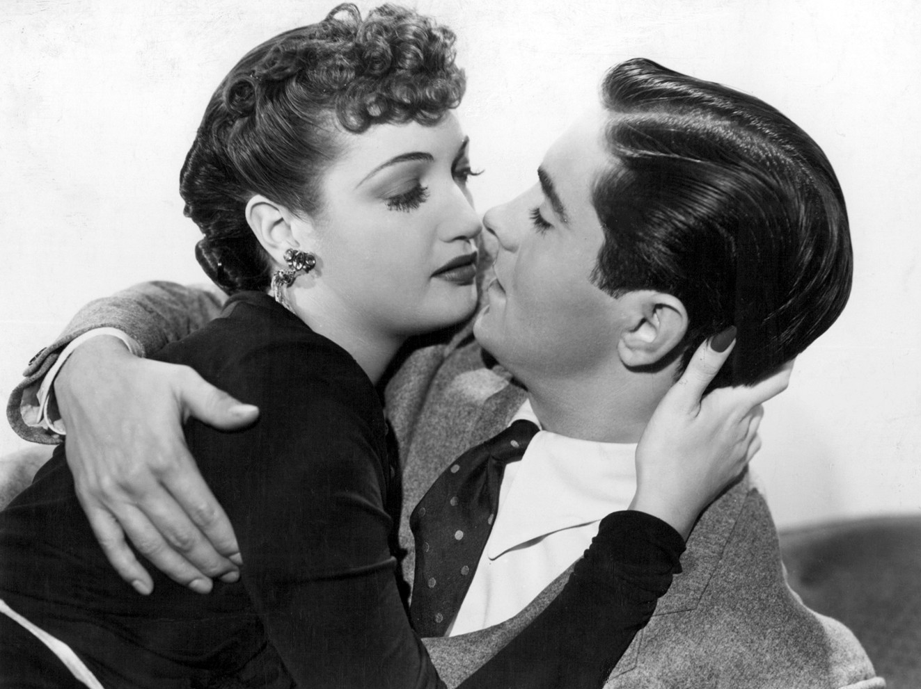 Photo of Dorothy Lamour and Tyrone Power from the 1940 film Johnny Apollo.